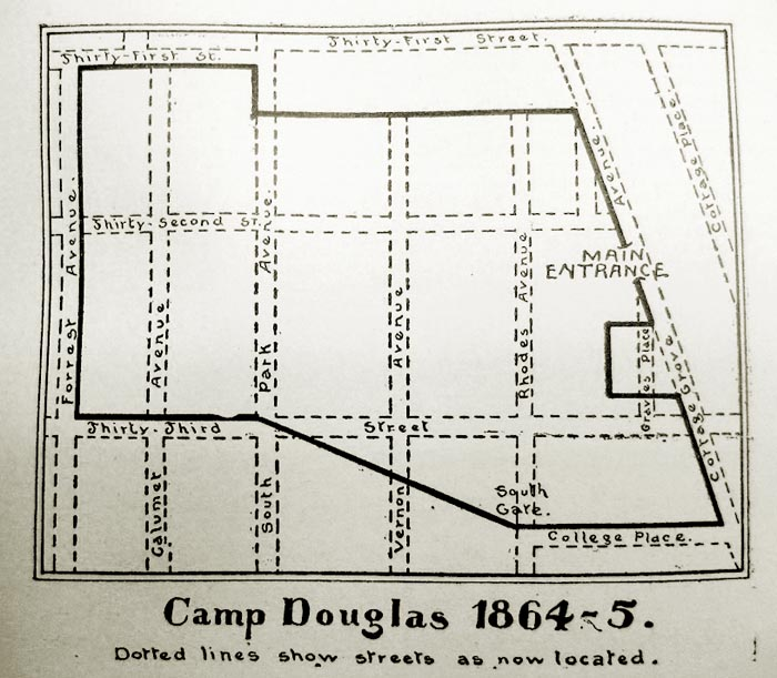 The reproduction below, from A.T. Andreas' History of Chicago, Vol. II, shows the location of the camp on the streets so-named at the time of the book's 1895 publication.